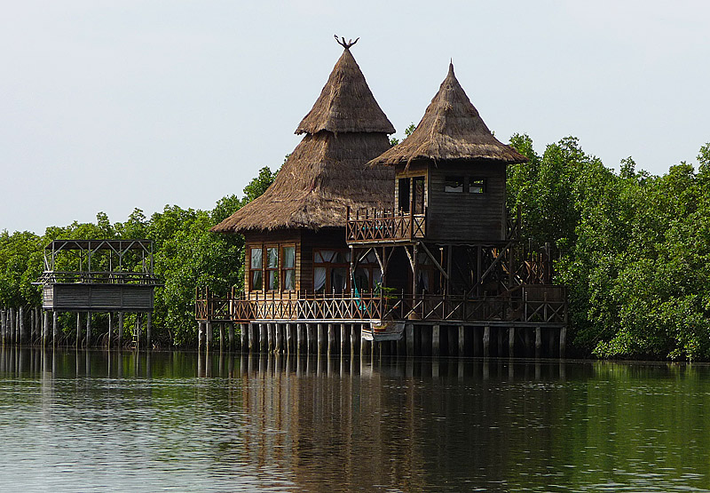 but only for a week. Our accommodation when we last visited Makasutu (The Gambia) in December 2009. Previously we stayed in one of the floating lodges. This image was taken from a dugout canoe at dawn -the birdlife here is amazing. We had Blue-breasted, Pied, Malachite and Giant Kingfishers perching on our balcony during our stay. This is probably the most relaxing place we have ever visited and one of the few places we keep returning to.